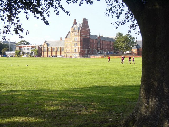 Exeter School